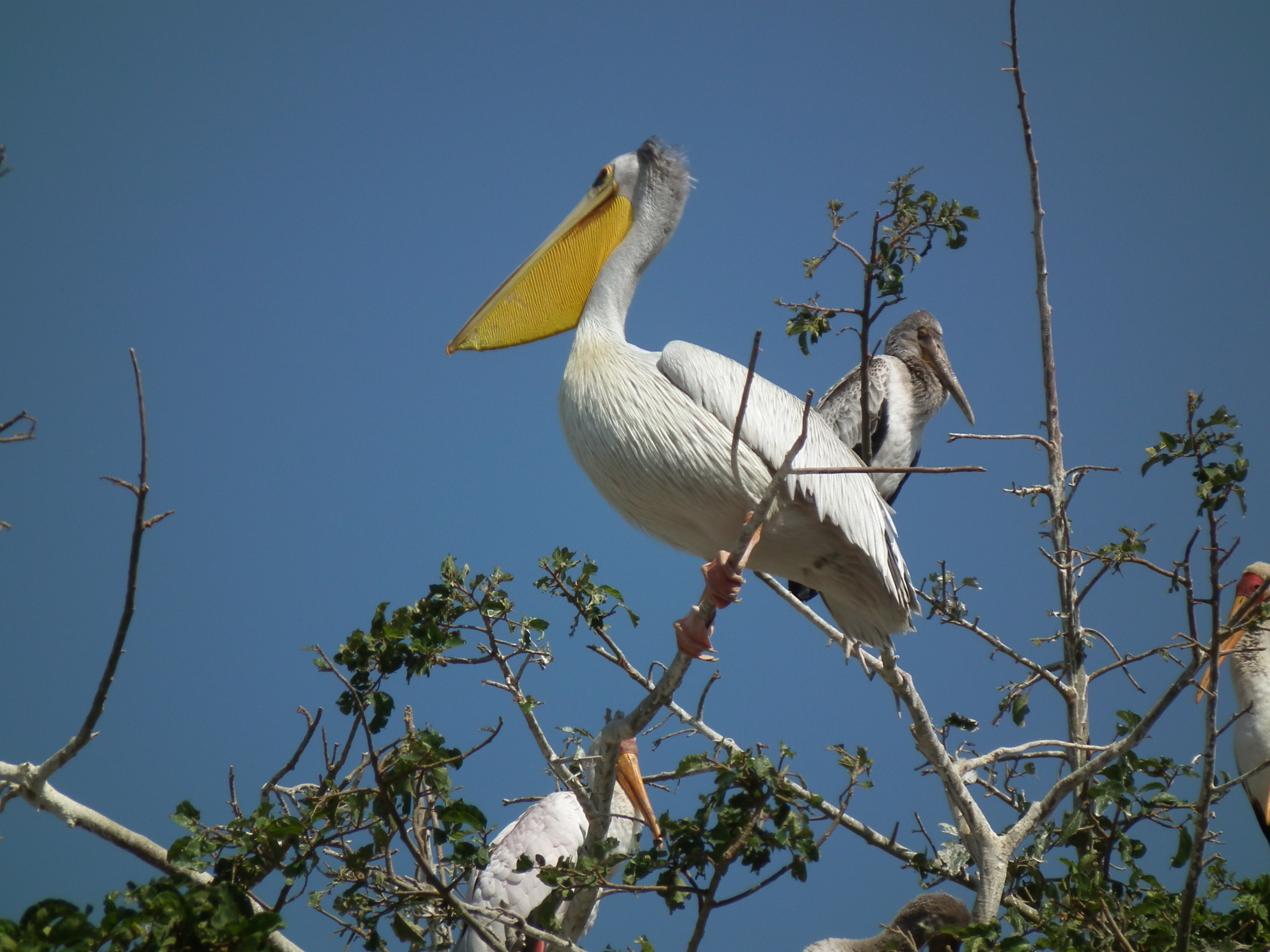 Pink-backed Pelican (Pelecanus rufescens) in breeding plumage, picture taken in Tanzania